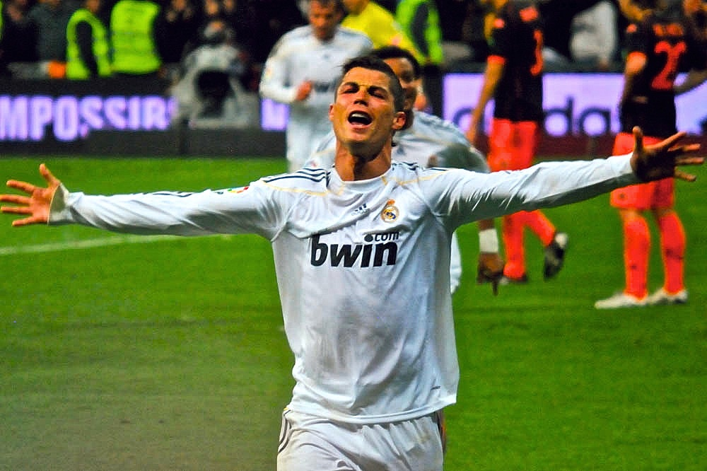 Cristiano Ronaldo in Real Madrid in April, 2010.